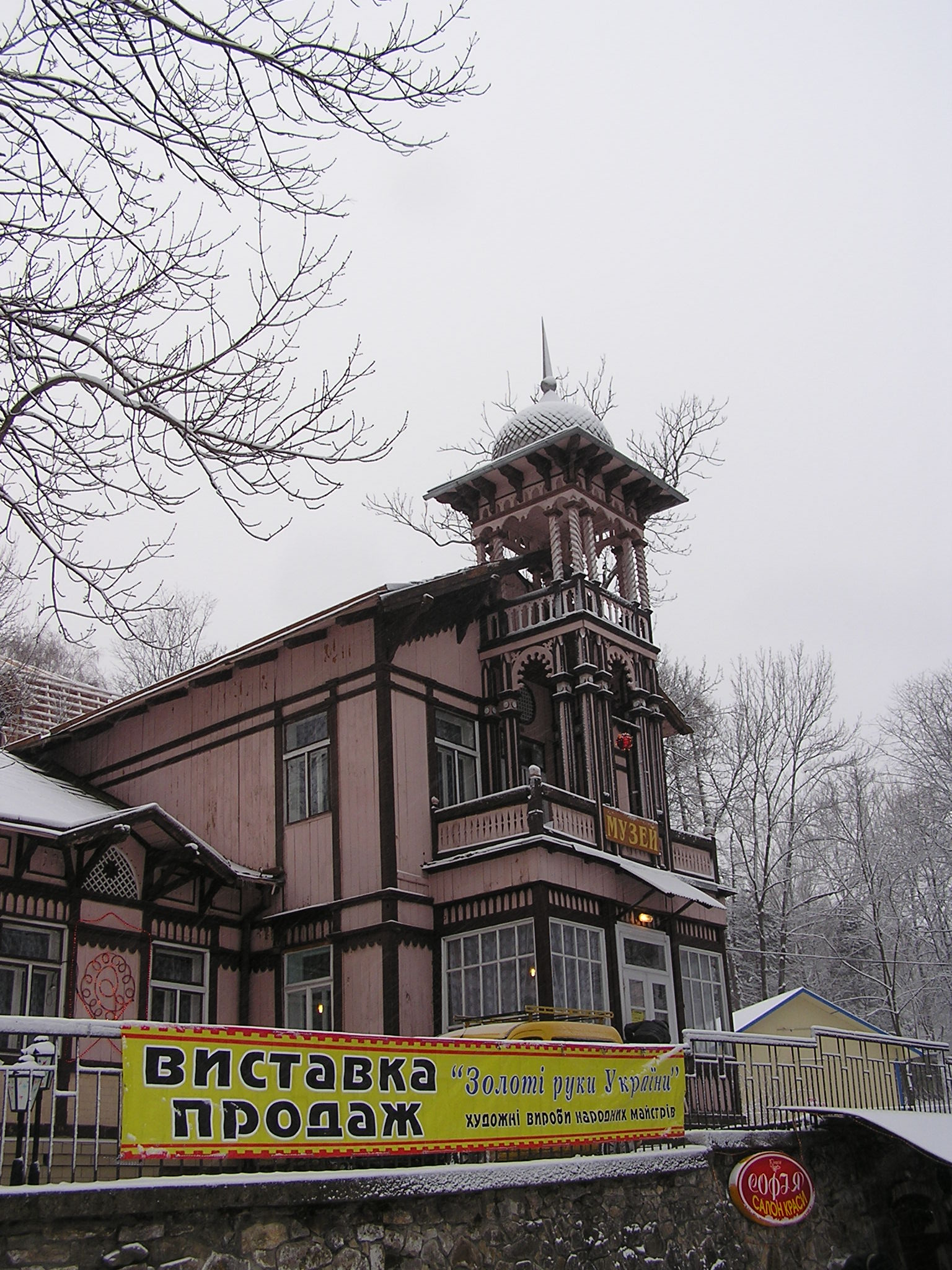 Truskavets